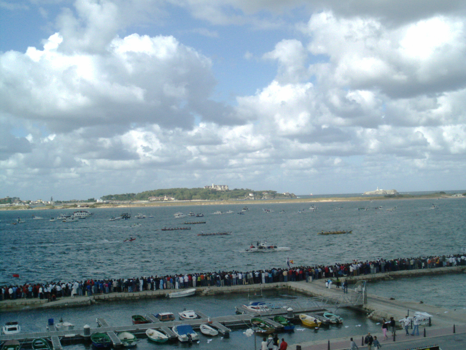 Cantabric boats race in Santander's Bay, Spain.